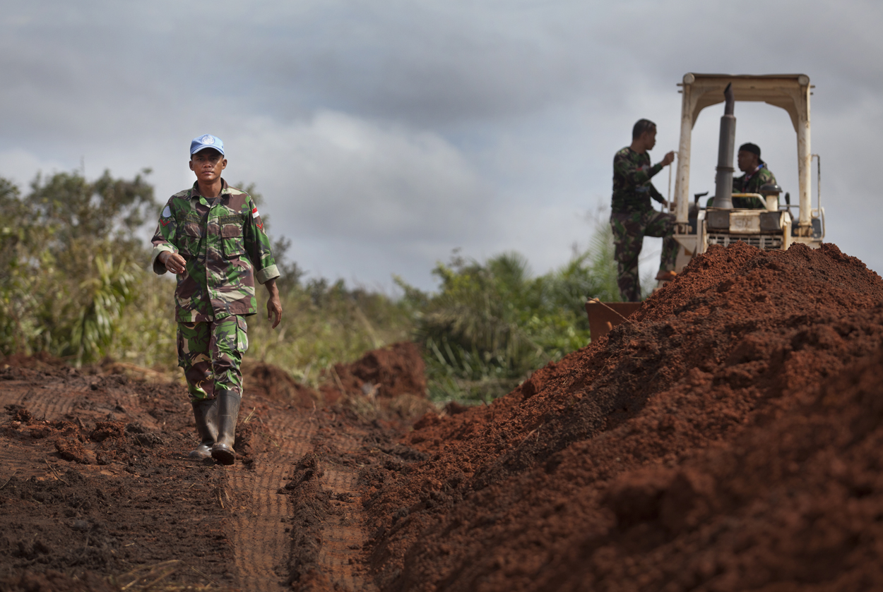 Following torrential rains in the Oriental Province in northern D.R. Congo in November 2012, which destroyed thousands of houses in Dungu, a town located in the extreme north of the province near the border with the Republic of South Sudan, MONUSCO Engineering Unit built an alternative road across the jungle to connect the town to the airfield, and thus facilitate humanitarian access to the area. Photo: MONUSCO/Sylvain Liechti. Suite aux pluies torrentielles qui s’étaient abattues en novembre 2012 sur la province Orientale dans le Nord de la R.D. Congo, détruisant des milliers d’habitations, notamment dans la ville de Dungu située au Nord du pays non loin de la frontière avec la République du Sud Soudan, l’unité du génie civil de la MONUSCO s’était mobilisée pour ouvrir une voie alternative à travers la foret dense pour relier la ville à la piste d’atterrissage et faciliter ainsi l’accès humanitaire à la population locale. Photo : MONUSCO/Sylvain Liechti.